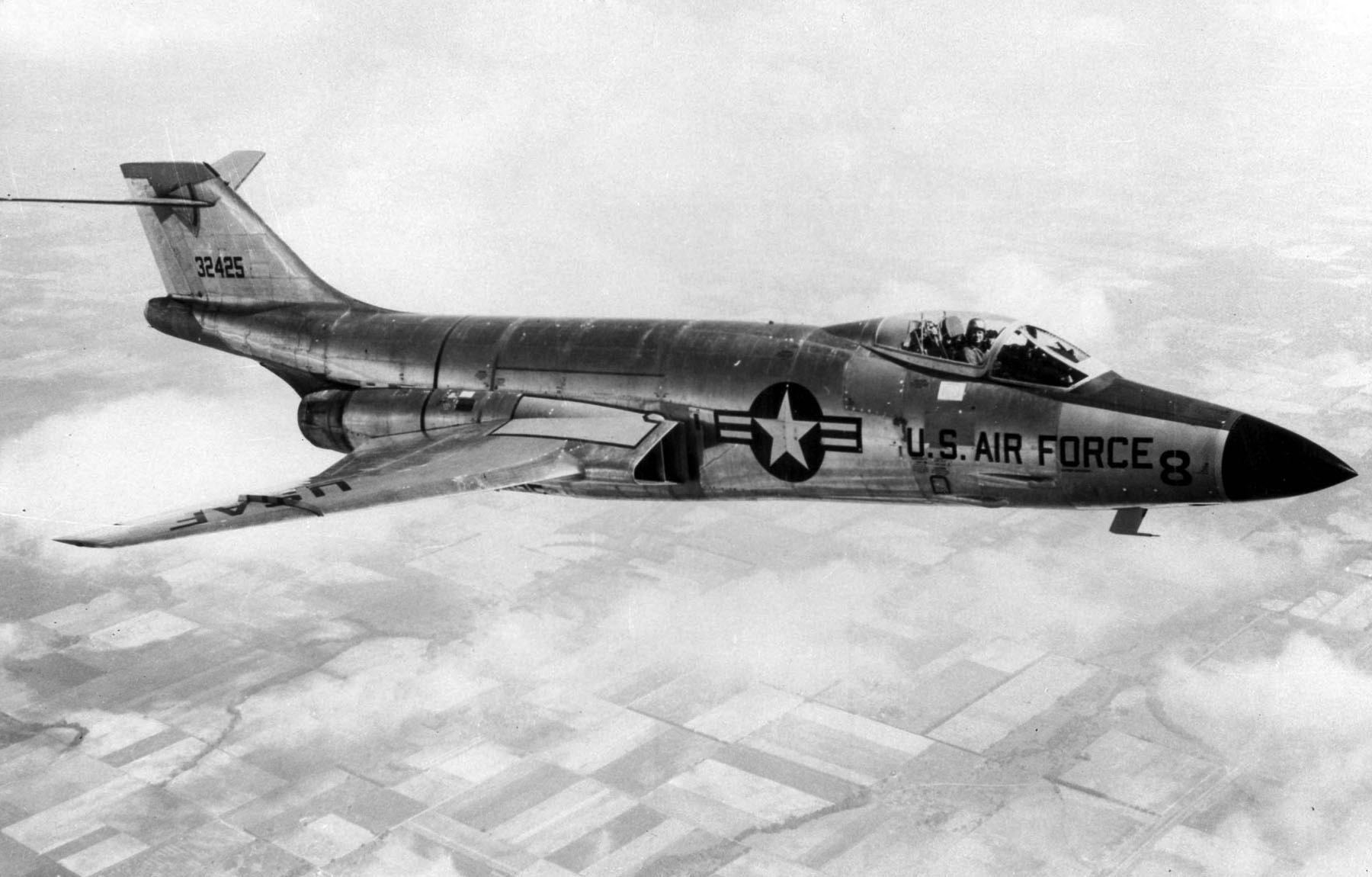 McDonnell F-101A (S/N 53-2425) from Bergstrom Air Force Base, Texas.